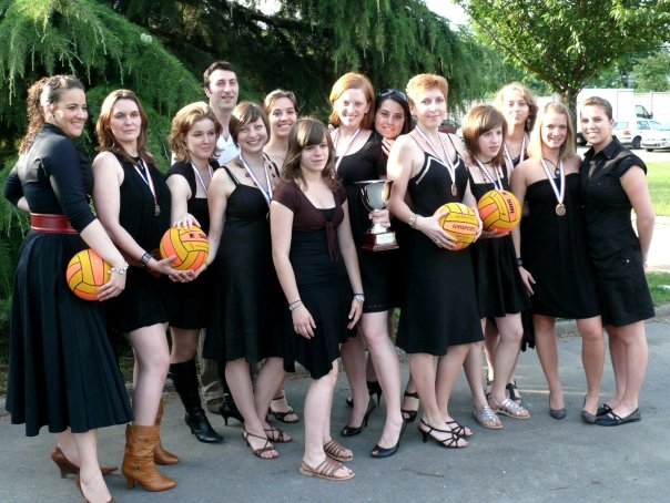 Water polo N2 Championnes